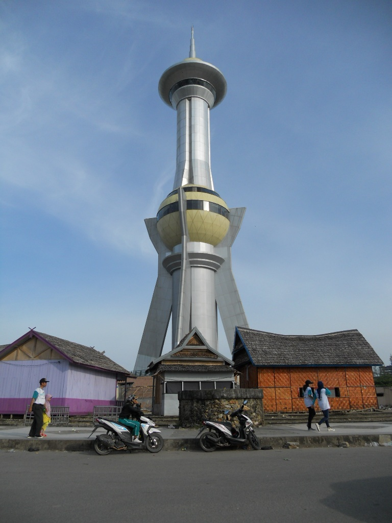 Tugu Religi, previously known as MTQ Monument, Kendari, South East Sulawesi.